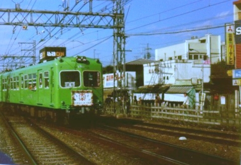 Keio2782 Chofu station 1981-11-08